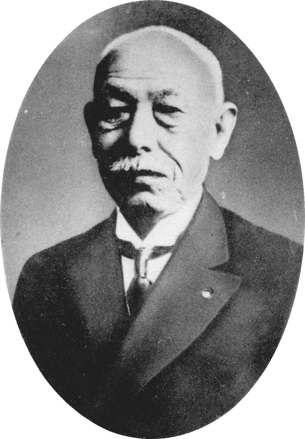 Ōsawa Kenji, Director of the College of Medicine at Imperial University.